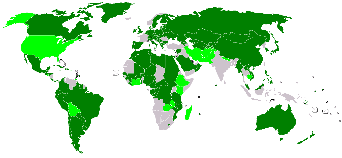 ratified - dark green; signed only - light green